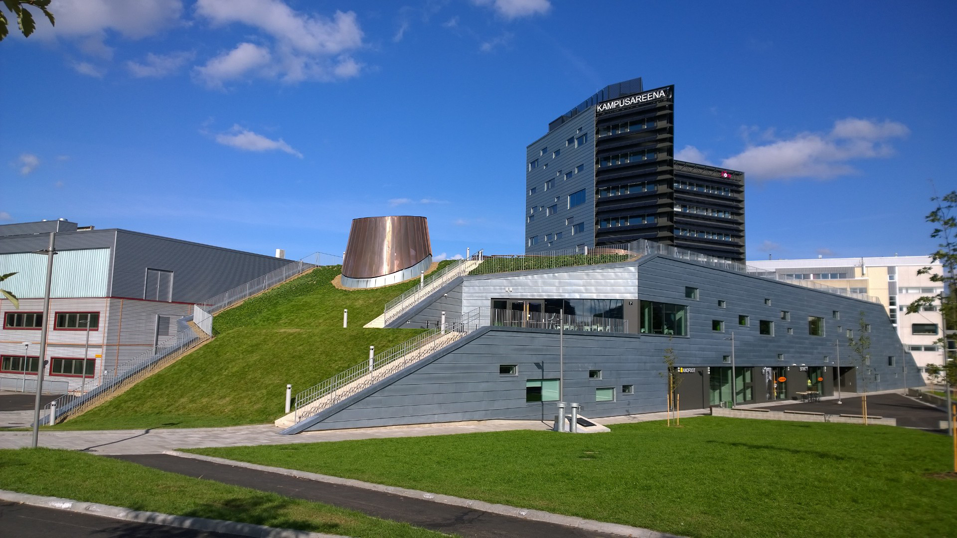 Kampusareena-building, Tampere University of Technology